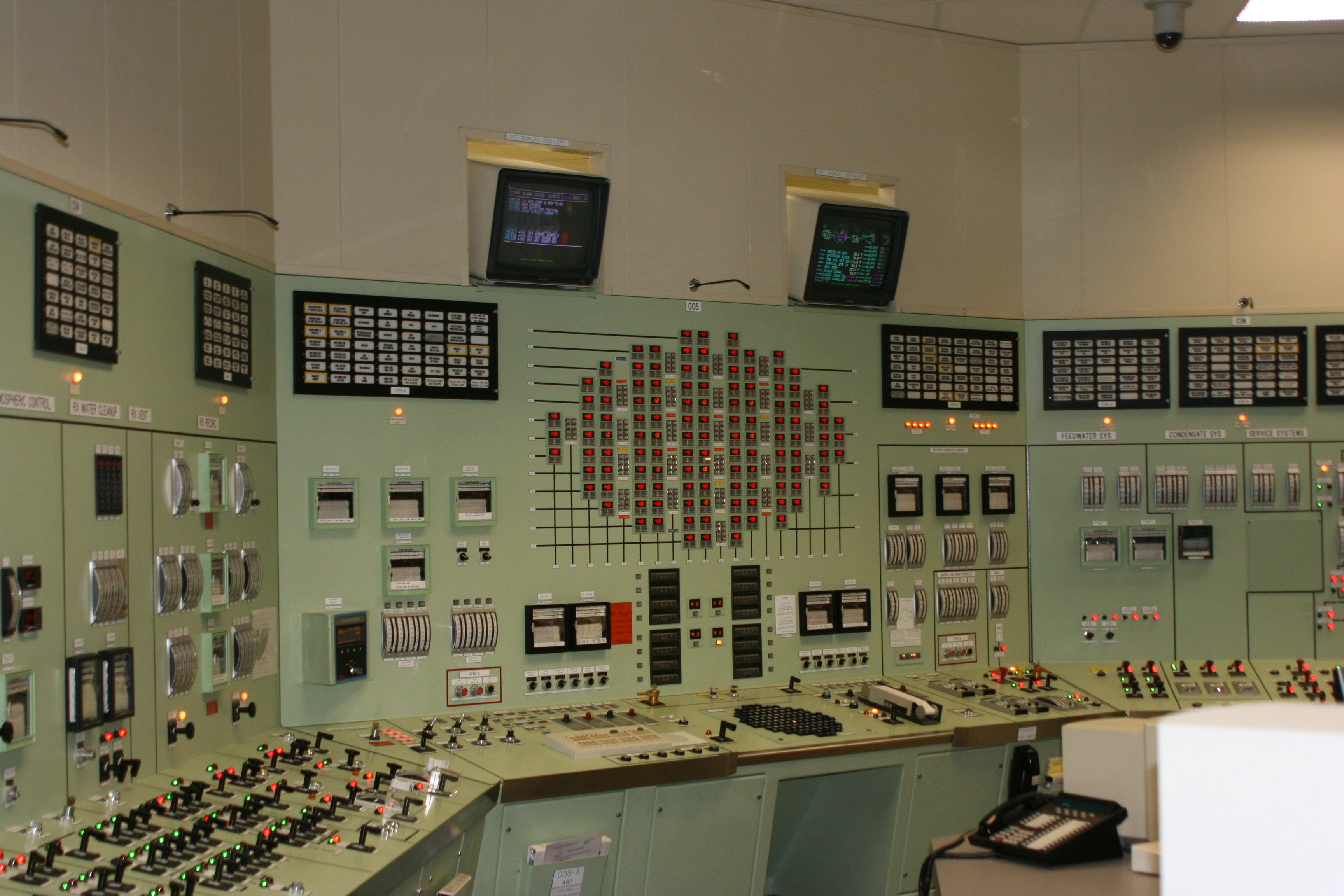 Monticello, Minnesota nuclear power plant on-site training simulation room, a functional replica of the actual control room.